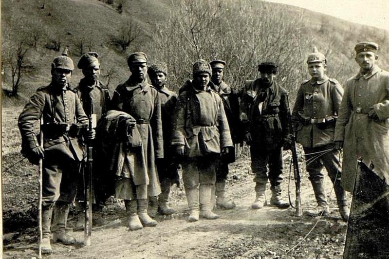 Russian POW's of World War I